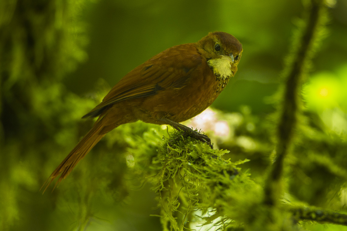 Fulvous-dotted Treerunner - Colombia_S4E9530